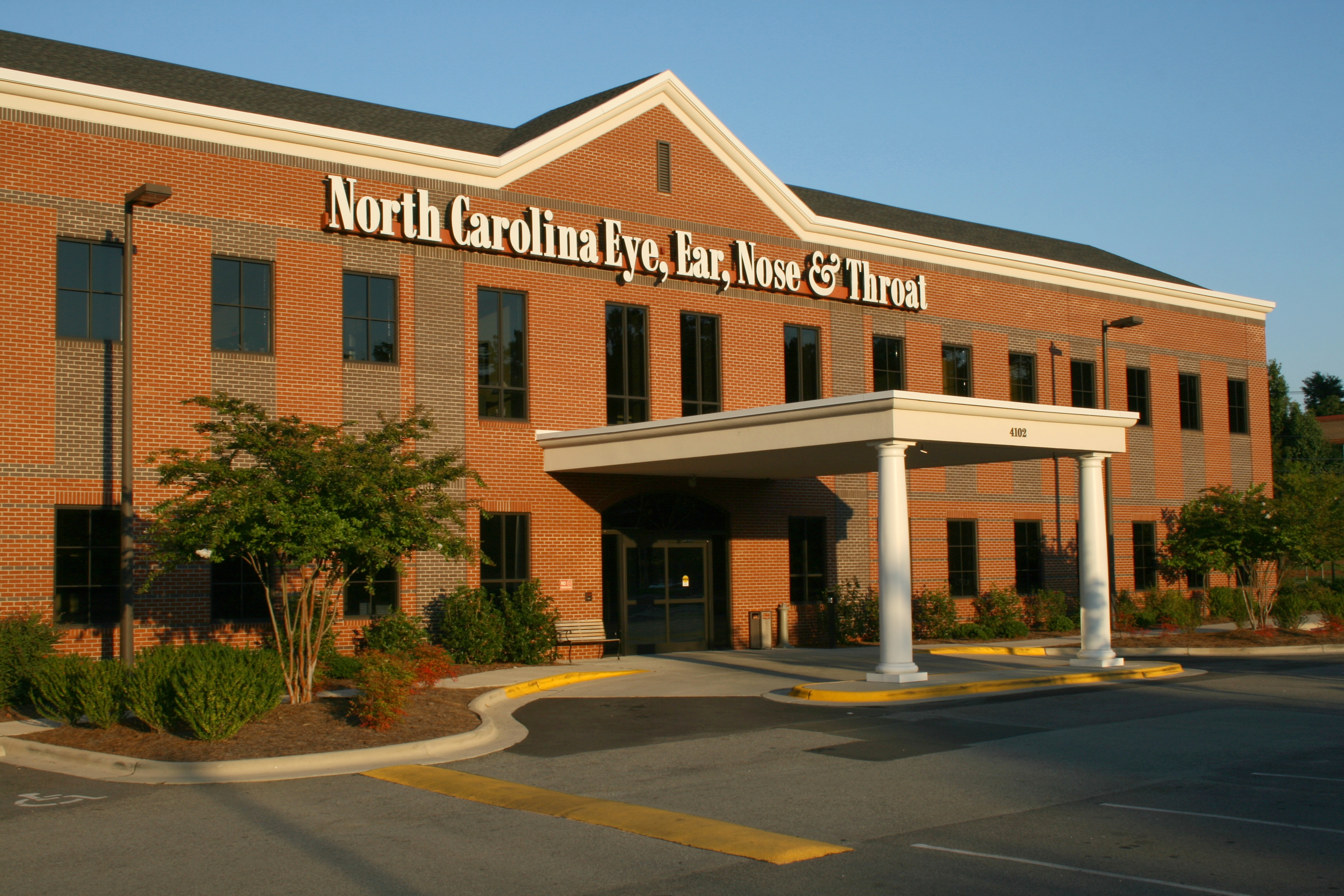 The main office of North Carolina Eye, Ear, Nose & Throat (formerly known as McPherson Hospital), a medical practice at 4102 North Roxboro Road in Durham, North Carolina.